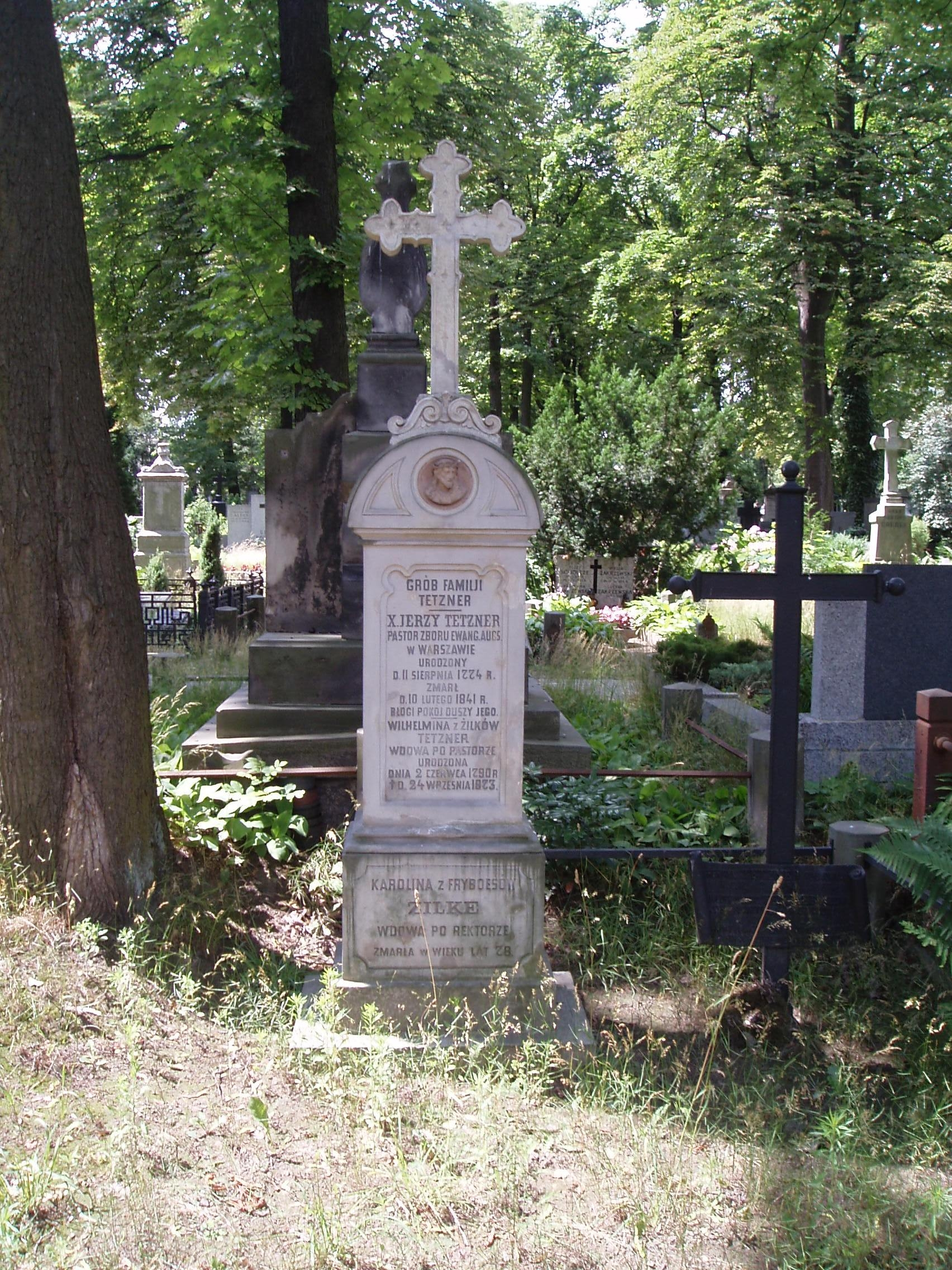 Tetzner family headstone, lutheran cemetery in Warsaw